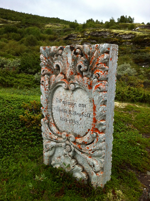 Memorial of Thekla Resvoll in Kongsvoll mountain garden at Dovre mountain, Norway.